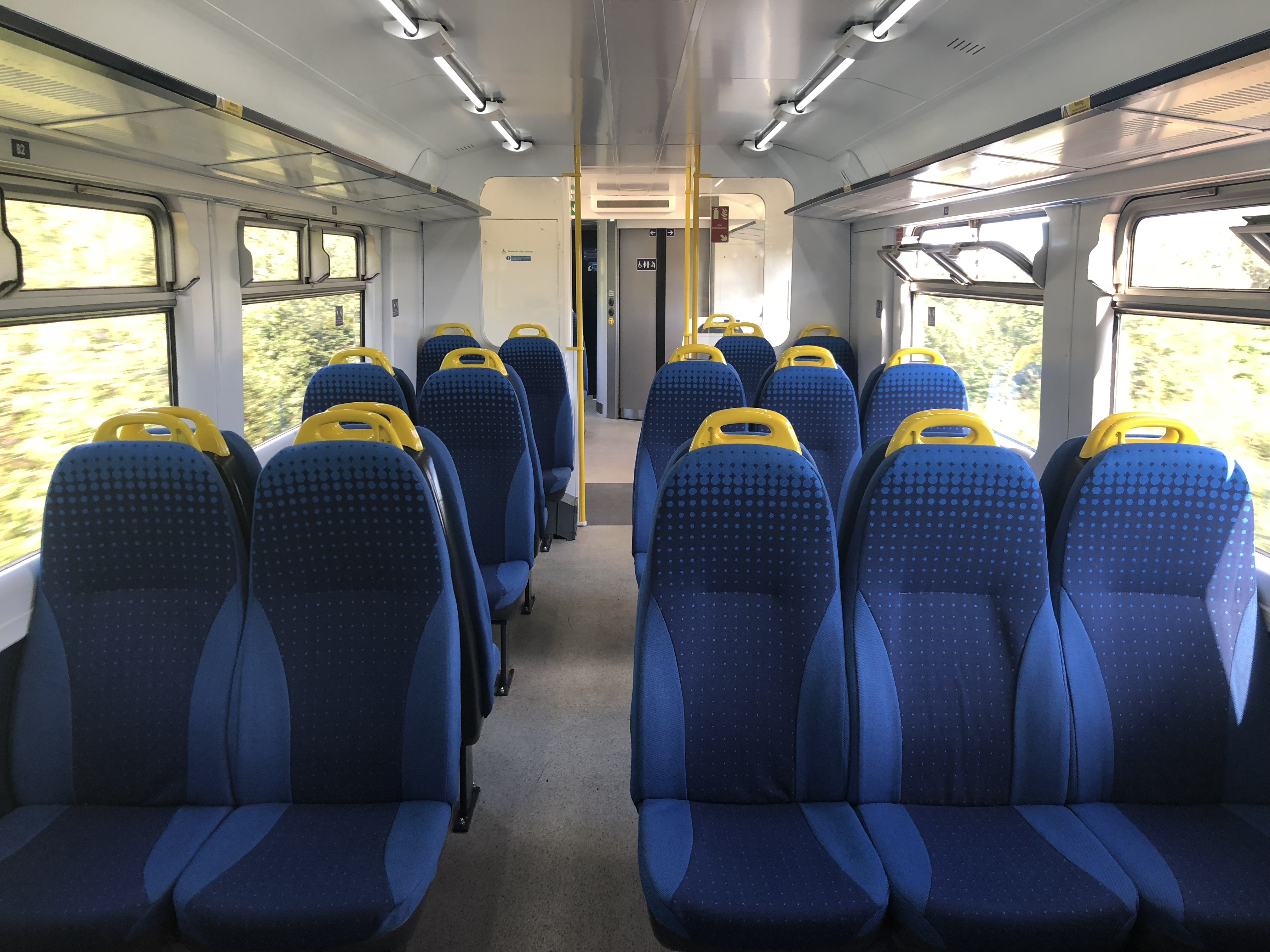 The refurbished interior of a Northern Class 150/1 showing new LED lighting and a disabled toilet.